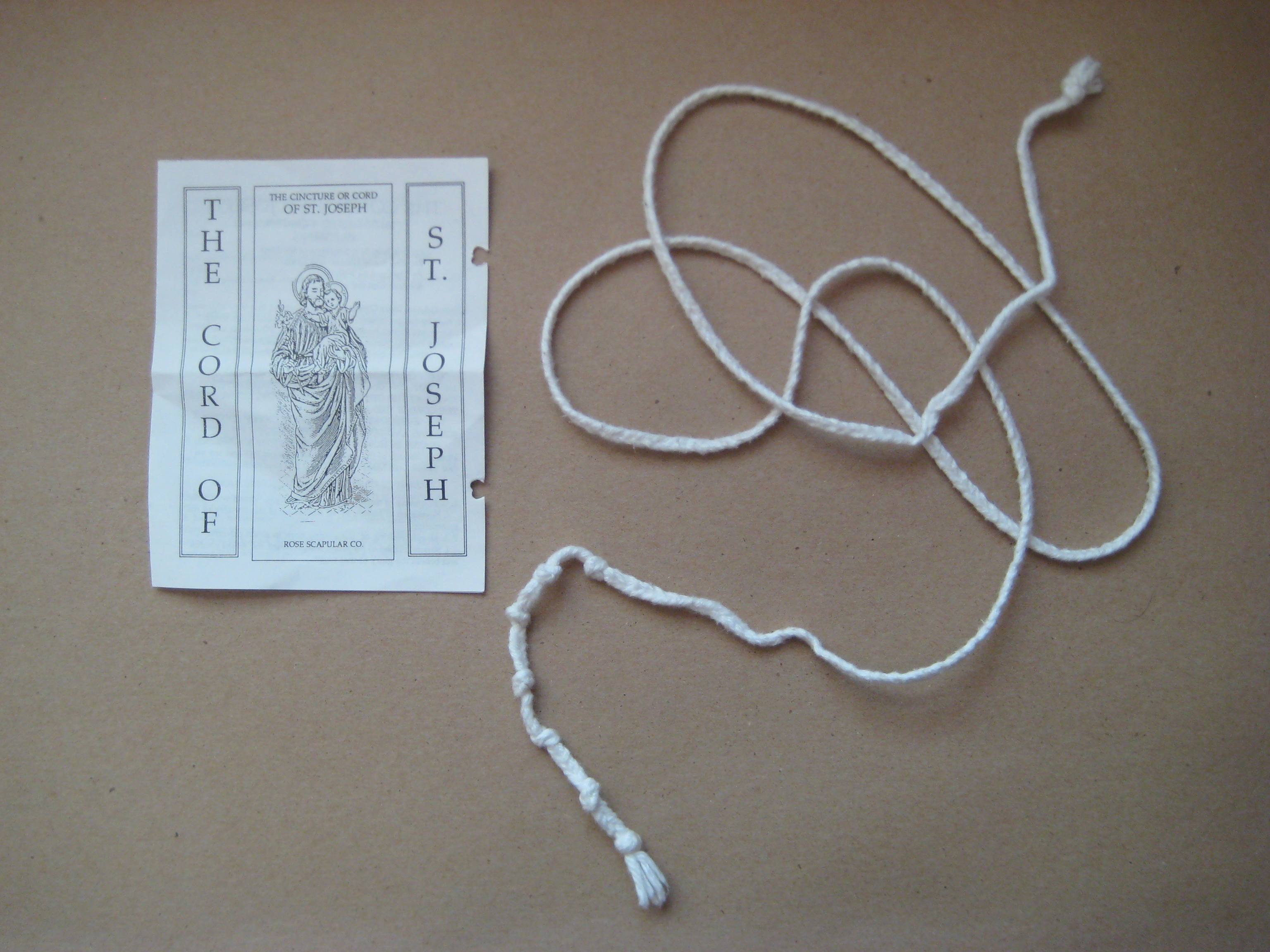 Cord of St. Joseph with explanatory pamphlet. Having been touched to the Santa Casa di Loreto before distribution for sale, this would be considered a 3rd degree relic by some Roman Catholics. Sold with knot at either end, additional knots added per custom. Purchased at the gift shop at the Basilica of the National Shrine of the Immaculate Conception in Washington, DC. January 2009 photo by John Stephen Dwyer